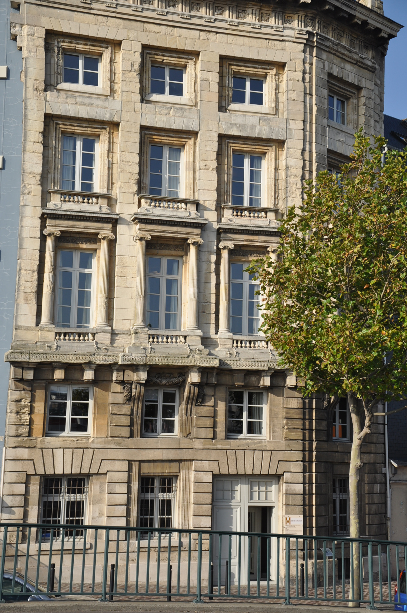 Le Havre (Normandy, France), famous historic house, now museum.